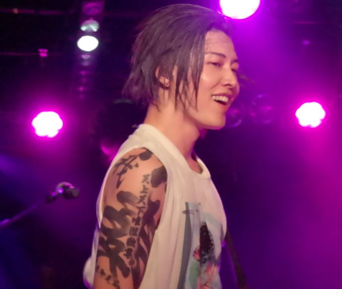 Miyavi Budapest A38